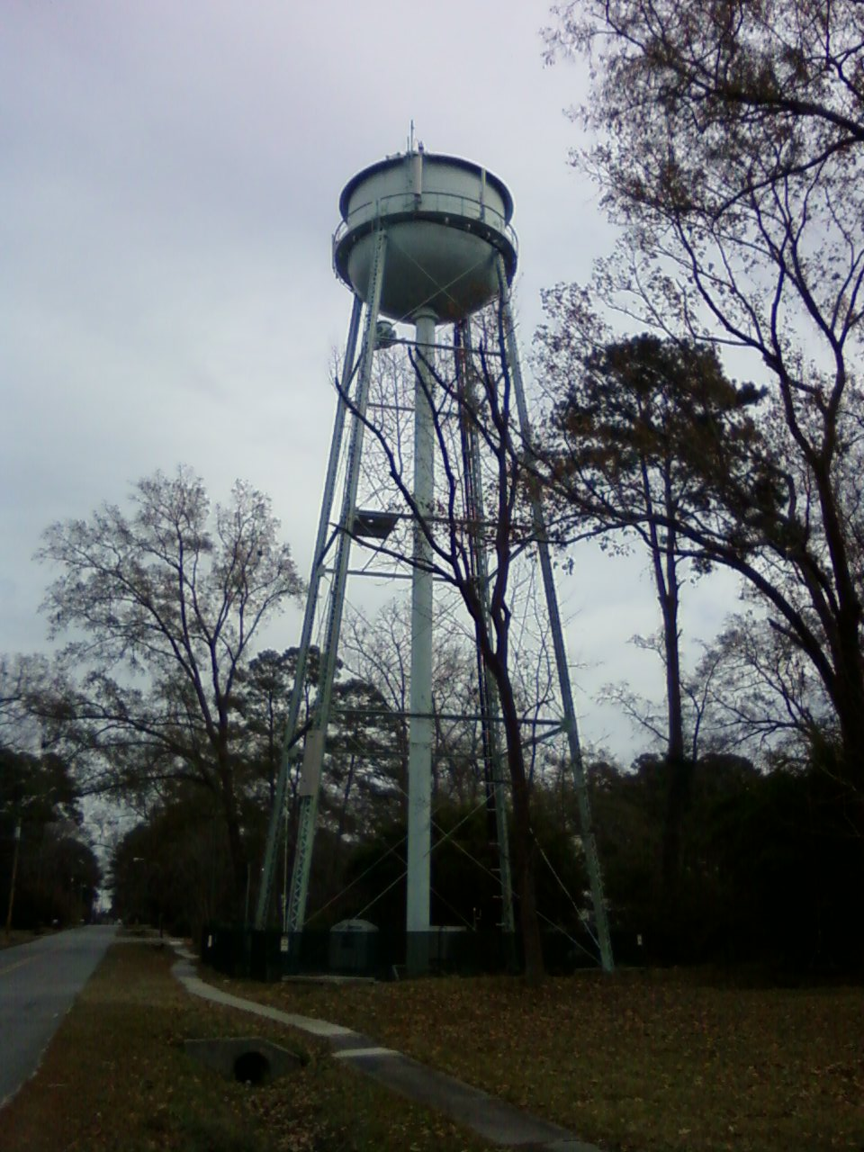 Water tower, located at the intersection of Nelson and Rommel avenues in Garden City, Georgia.